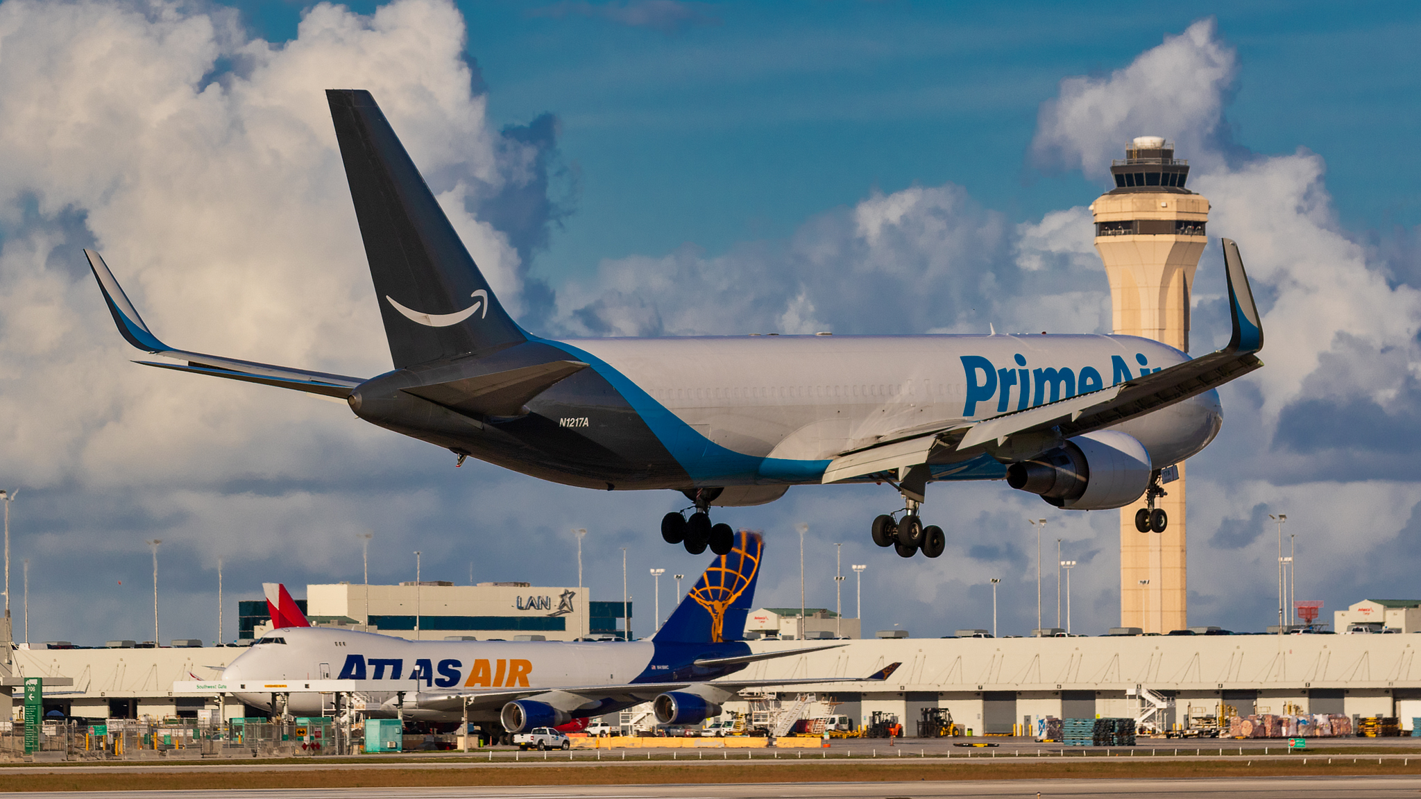 Prime Air Boeing 767-300F N1217A operated by Atlas Air Inc. Manufacturer Serial Number (MSN): 25865 Line Number: 430